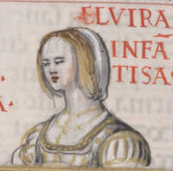 Elvira Alfonsez, daughter of Alfonso VI.